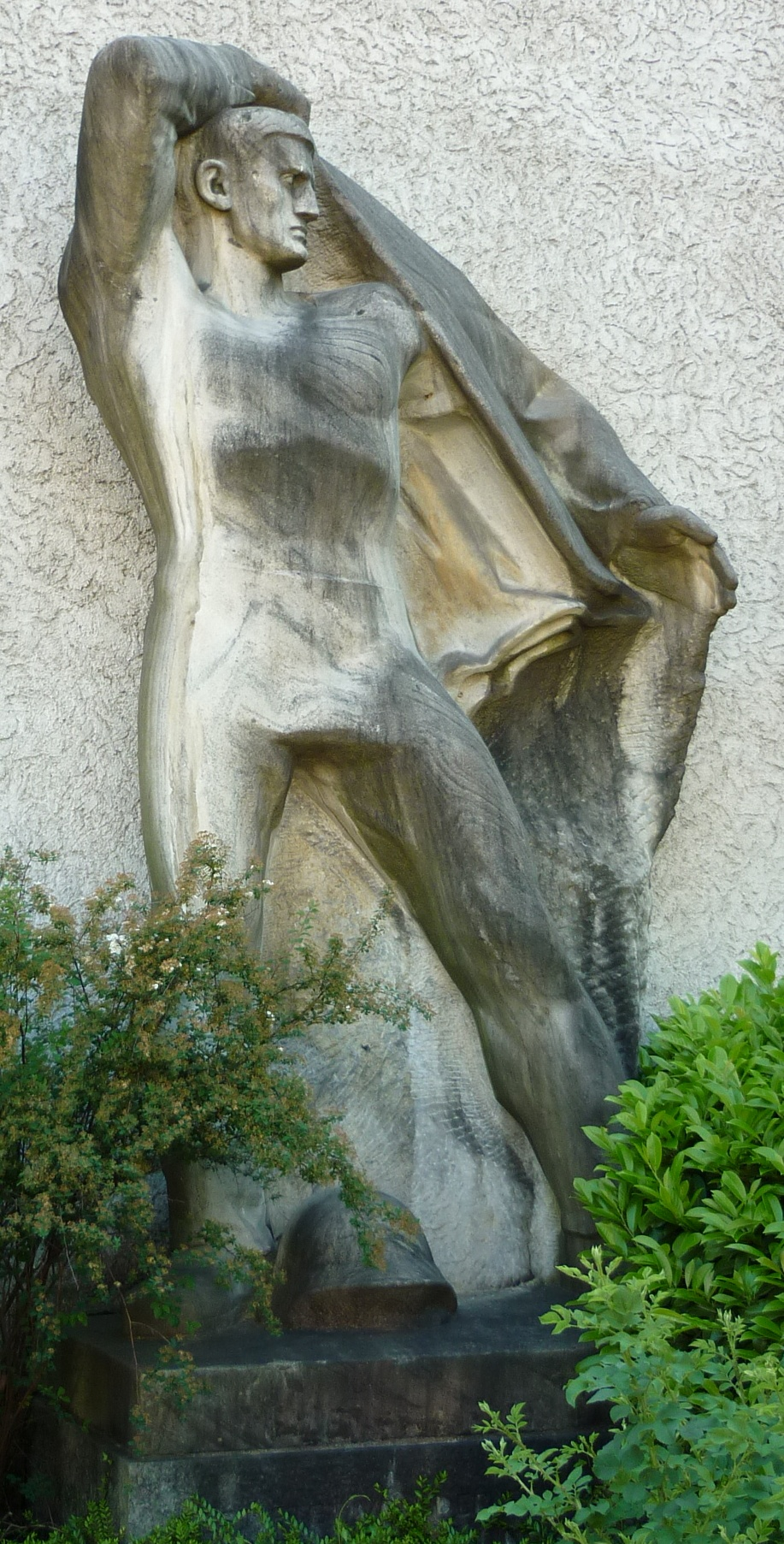 "Wehrbereitschaft" by Hans Brandenberger 1943-47, sculpture in marble